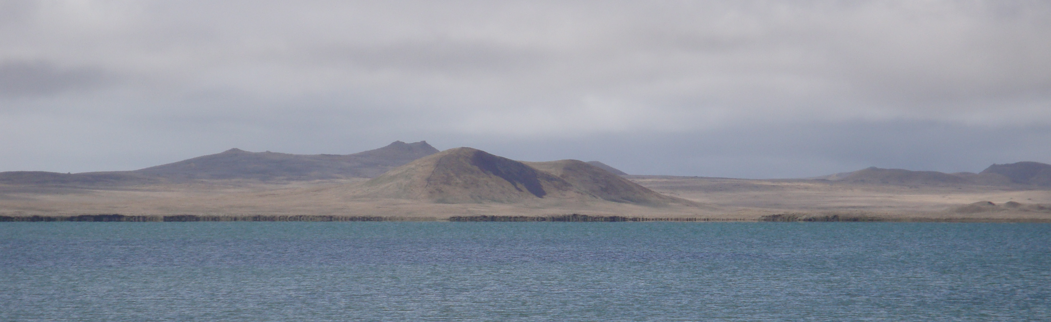 Looking across Big Lake to the northwest, Saint Paul Island, Alaska